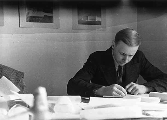 Photograph of the Finnish architect Olli Saijonmaa (1908–1999) at work.